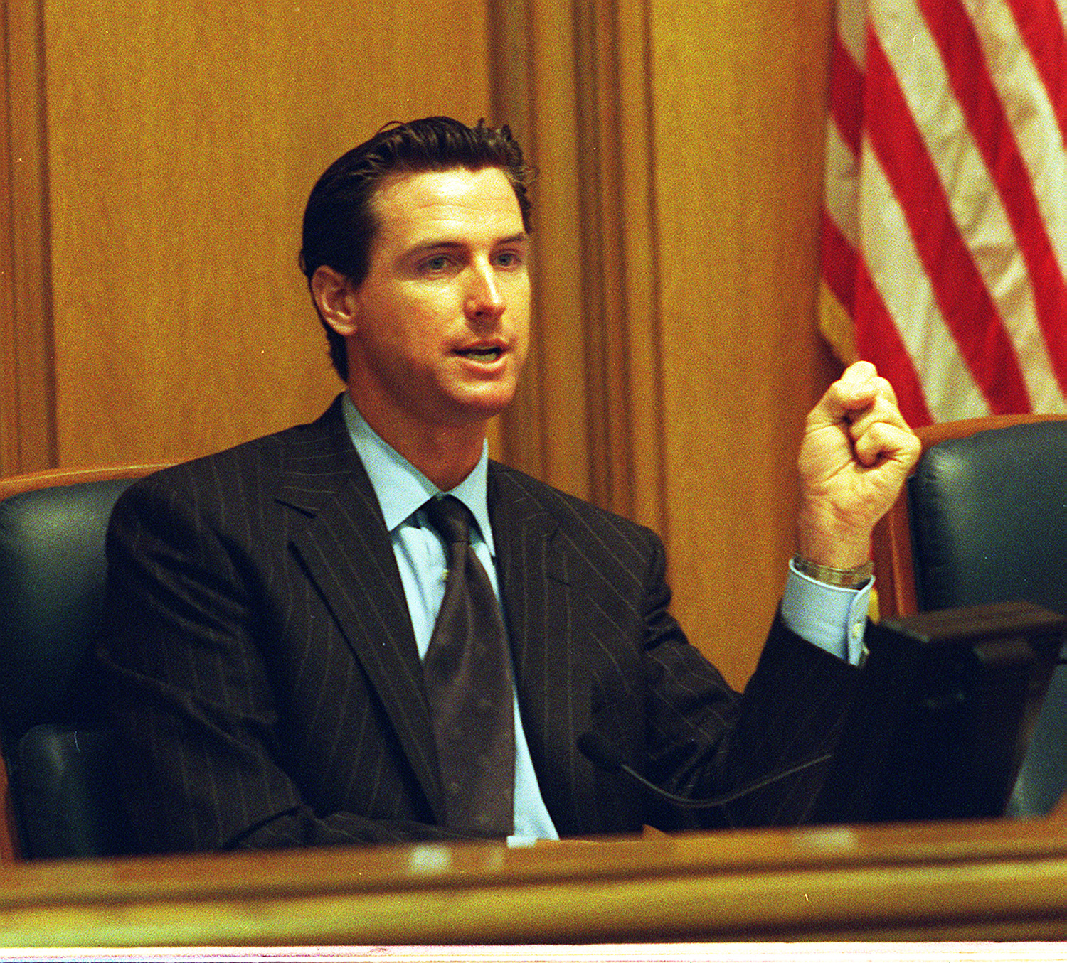 Gavin NEWSOM/C/21JUN99 photo by NANCY WONG SF SUPERVISOR GAVIN NEWSOM AT A RULES COMMITTEE MEETING INTRODUCING CHARTER AMENDMENT BY ADDING A NEW ARTICLE VIIIA TO CREATE A MUNICIPAL TRANSPORTATION AGENCY TO MANAGE AND OPERATE THE CITY'S MUNICIPAL RAILWAY.